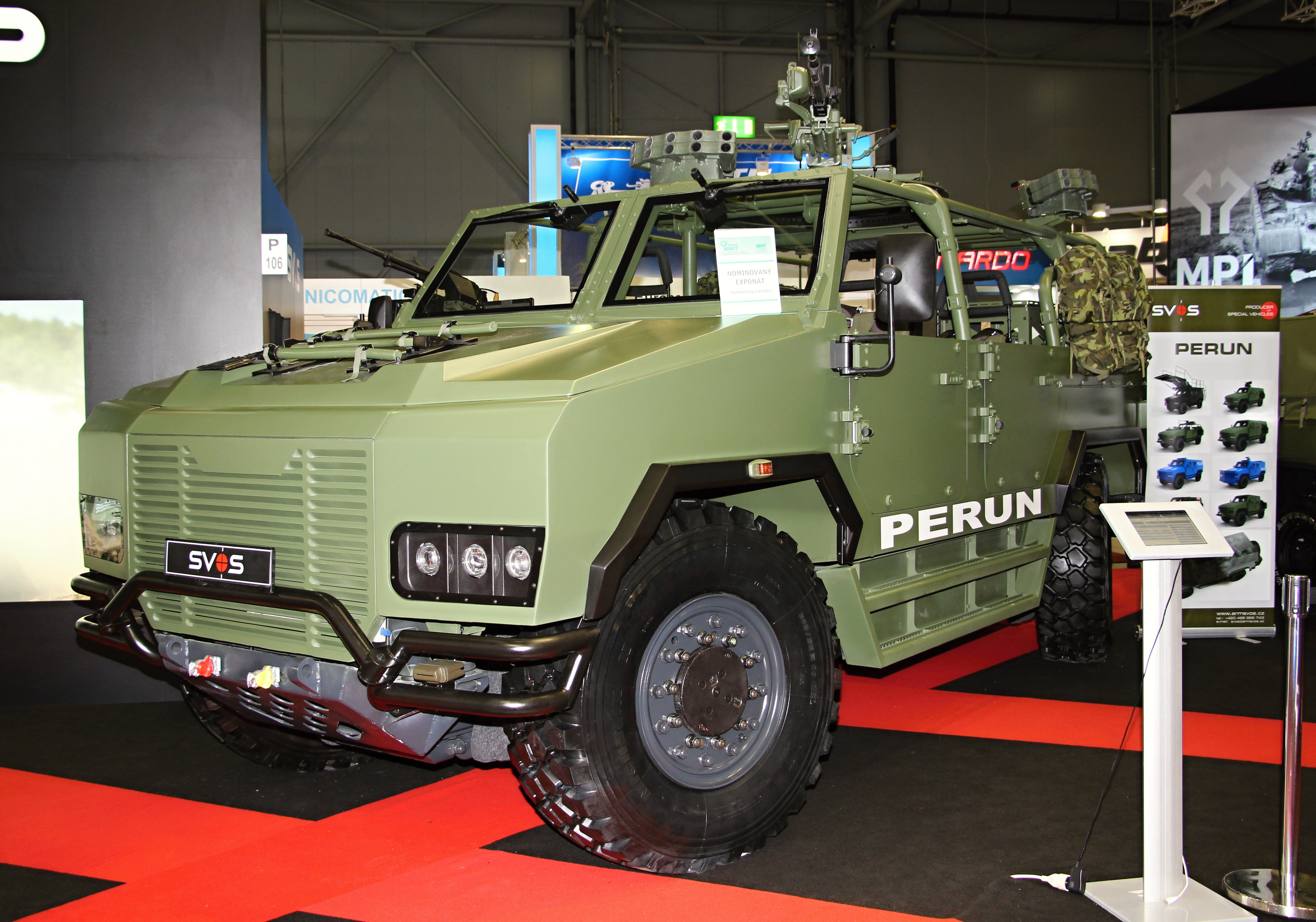 Perun 4x4 light vehicle manufactured by SVOS for Czech Special Forces. IDET 2017, Brno Exhibition Center, Czech Republic.